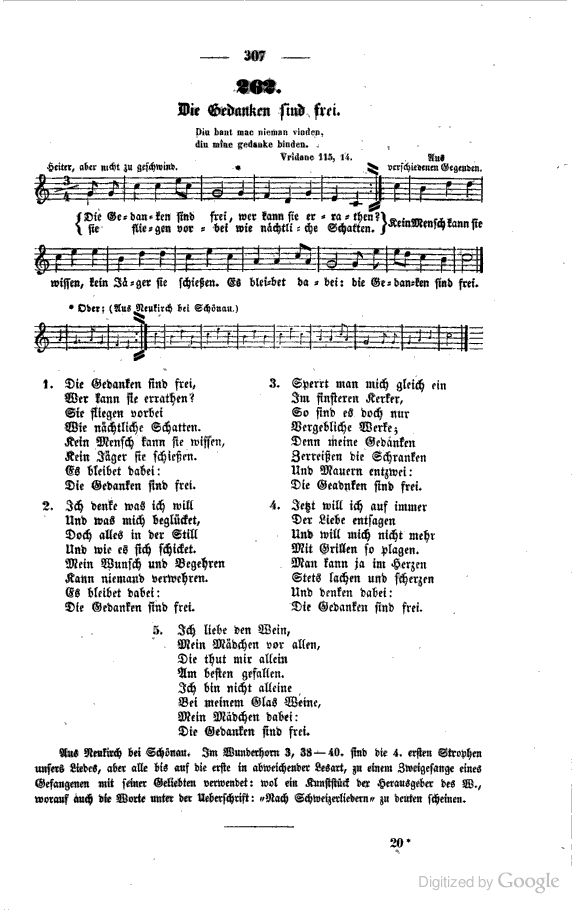 old German folk song: "Die Gedanken sind frei". Taken from an edition of "Schlesische Volkslieder mit Melodien: Aus dem Munde des Volkes" by August Heinrich Hoffmann von Fallersleben, Ernst Heinrich Leopold Richter; Published by Breitkopf und Härtel, 1842. page 307.